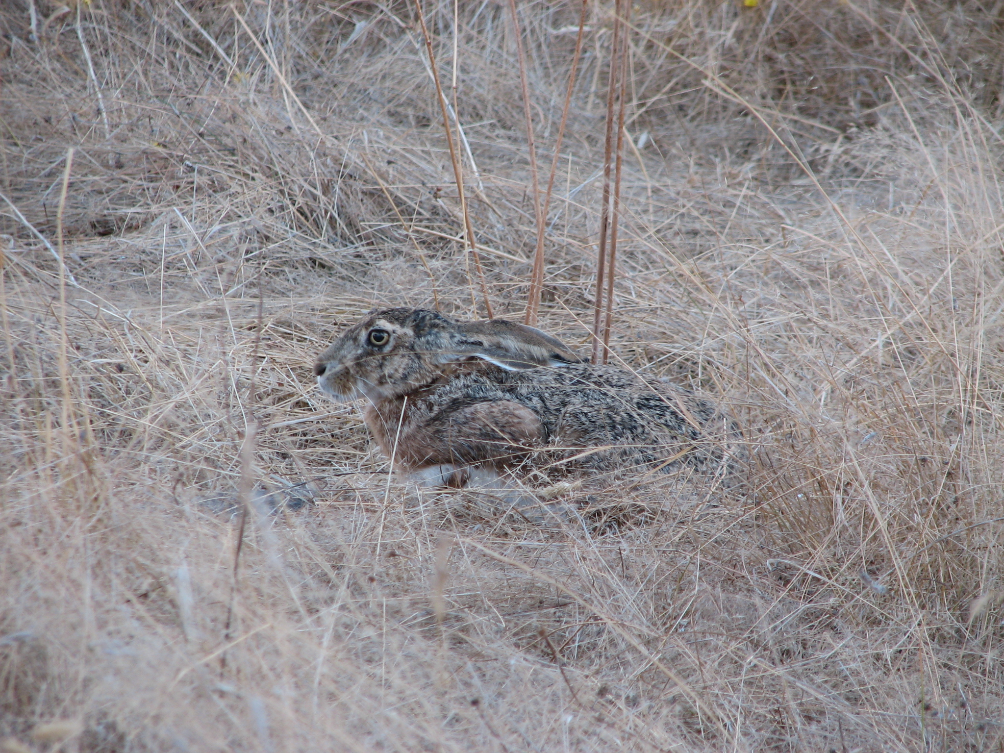 Lepus granatensis. Extremadura countryside, Spain.